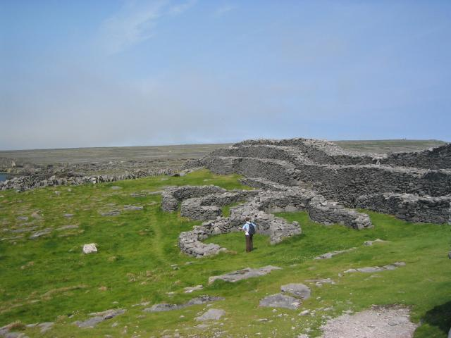 Dún Dúchathair. A promontory fort built in the Iron Age, containing the remnants of several "beehive" huts. The name means "black castle castle".